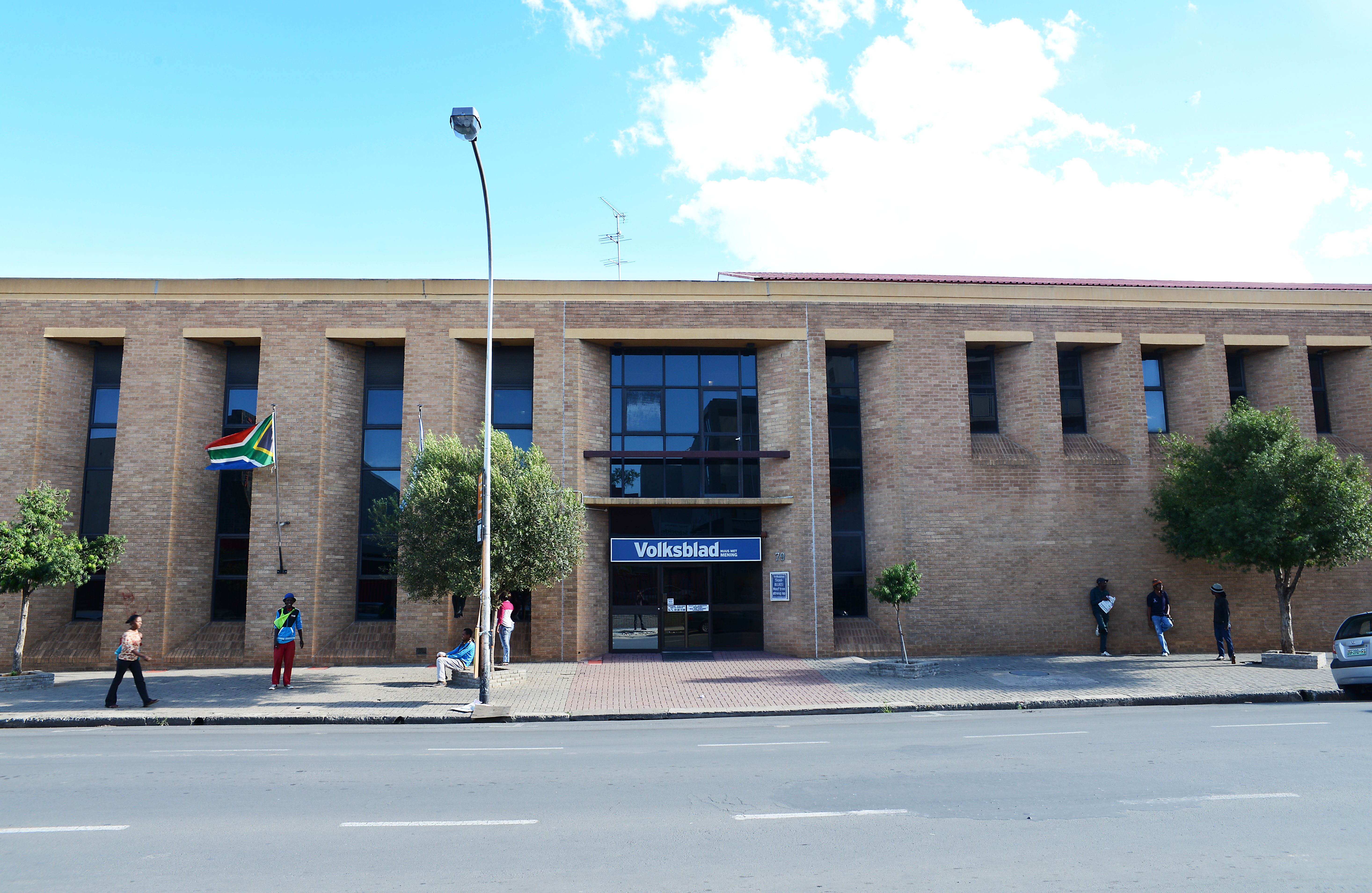 The view from across the street of the Volksblad office in Bloemfontein, South Africa.